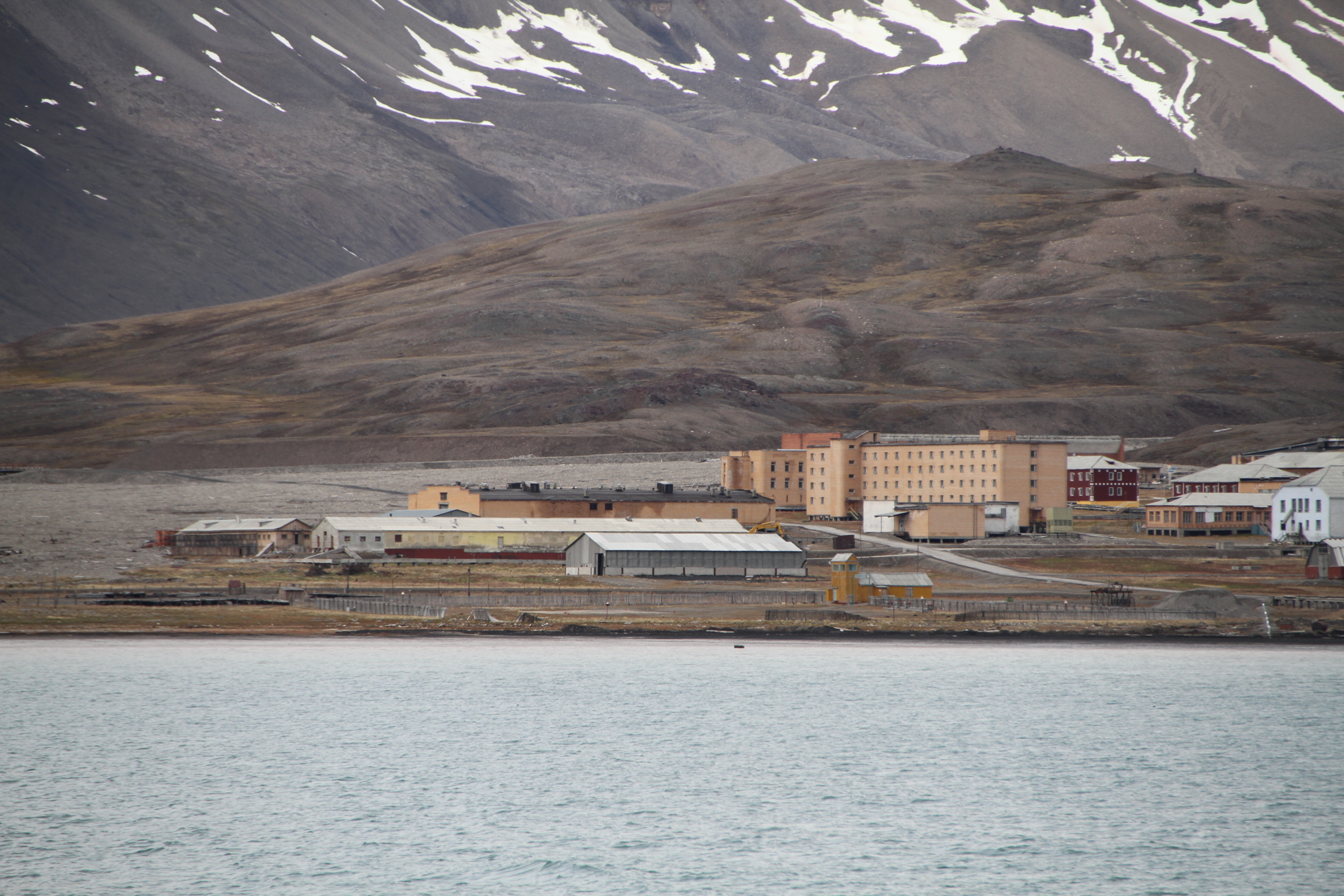 Photo of parts of the russian (-1998) mining community of Piramida (Pyramiden9, Billefjorden, Dickson Land, central Spitsbergen.